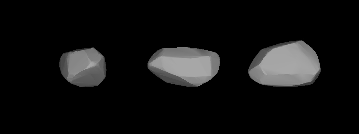 A three-dimensional model of 540 Rosamunde that was computed using light curve inversion techniques.